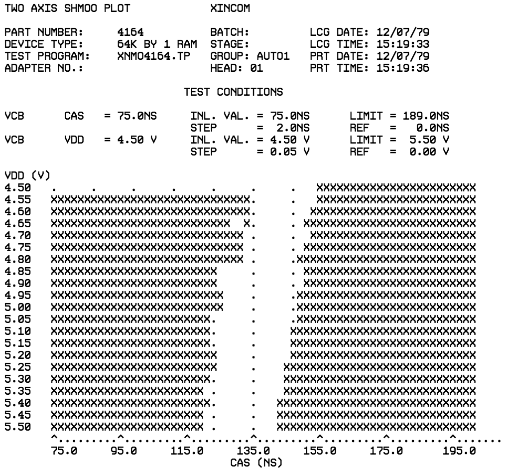 Surprising (abnormal) shmoo plot of a 64K DRAM